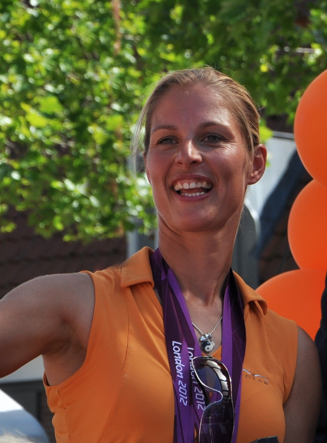 The Dutch dressage rider Adelinde Cornelissen (born July 8, 1979 in Beilen, Drenthe) at a ceremony in Nijkerk after the 2012 Olympic Games in London.